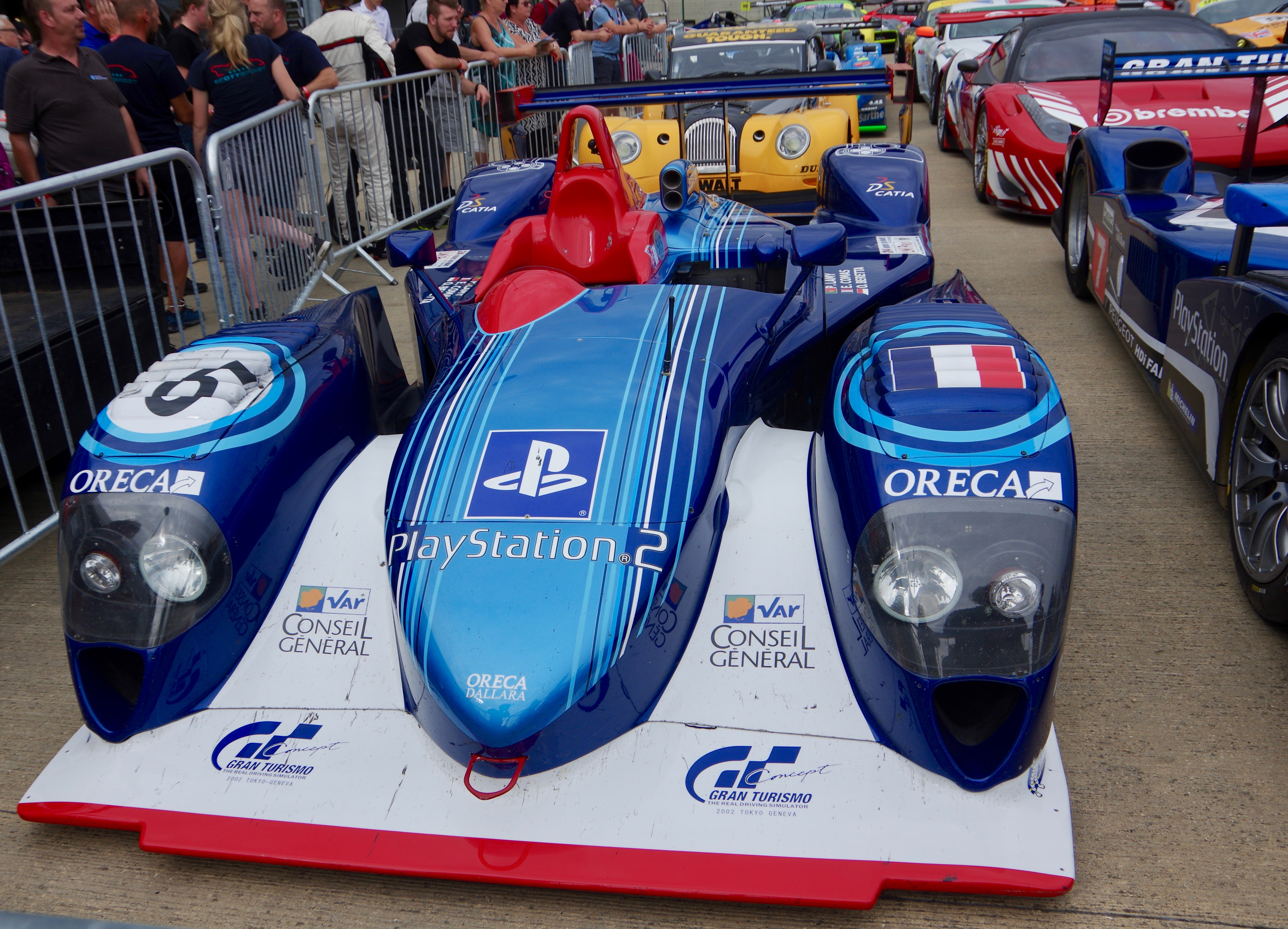 Silverstone Classic 2019 Aston Martin Trophy for Masters Endurance Legends